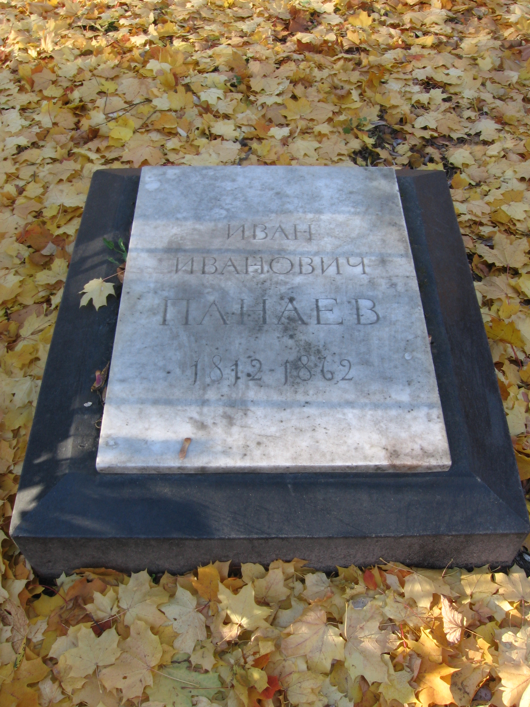 Grave of Ivan Panaev